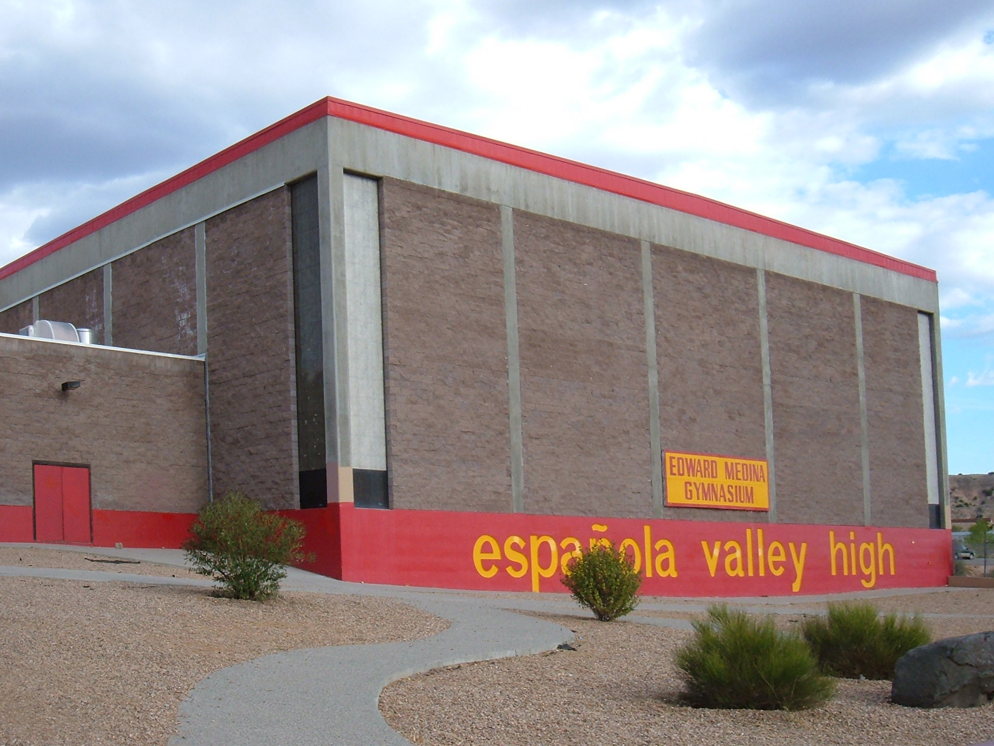 Edward Medina Gymnasium, a building of Española Valley High School in Española, New Mexico.